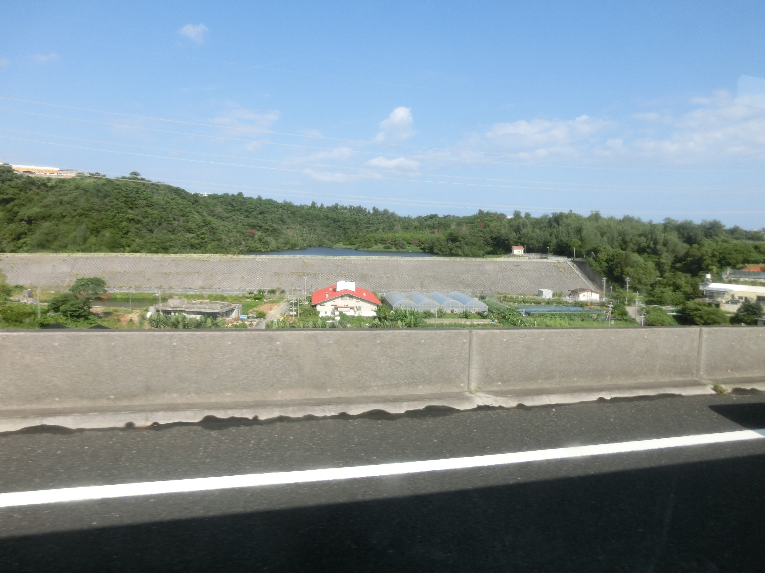 Ishikawa Dam